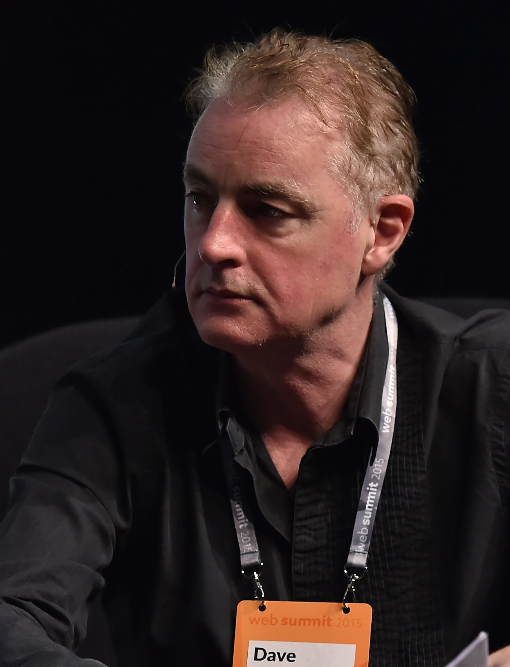 Dave Fanning at 2015 Web Summit that in 5 years has grown from 400 attendees to over 42,000 from more than 134 countries. It’s been called “the best technology conference on the planet”. But we just think it’s different. And that difference works for our attendees, ranging from Fortune 500 companies to the world’s most exciting startups.